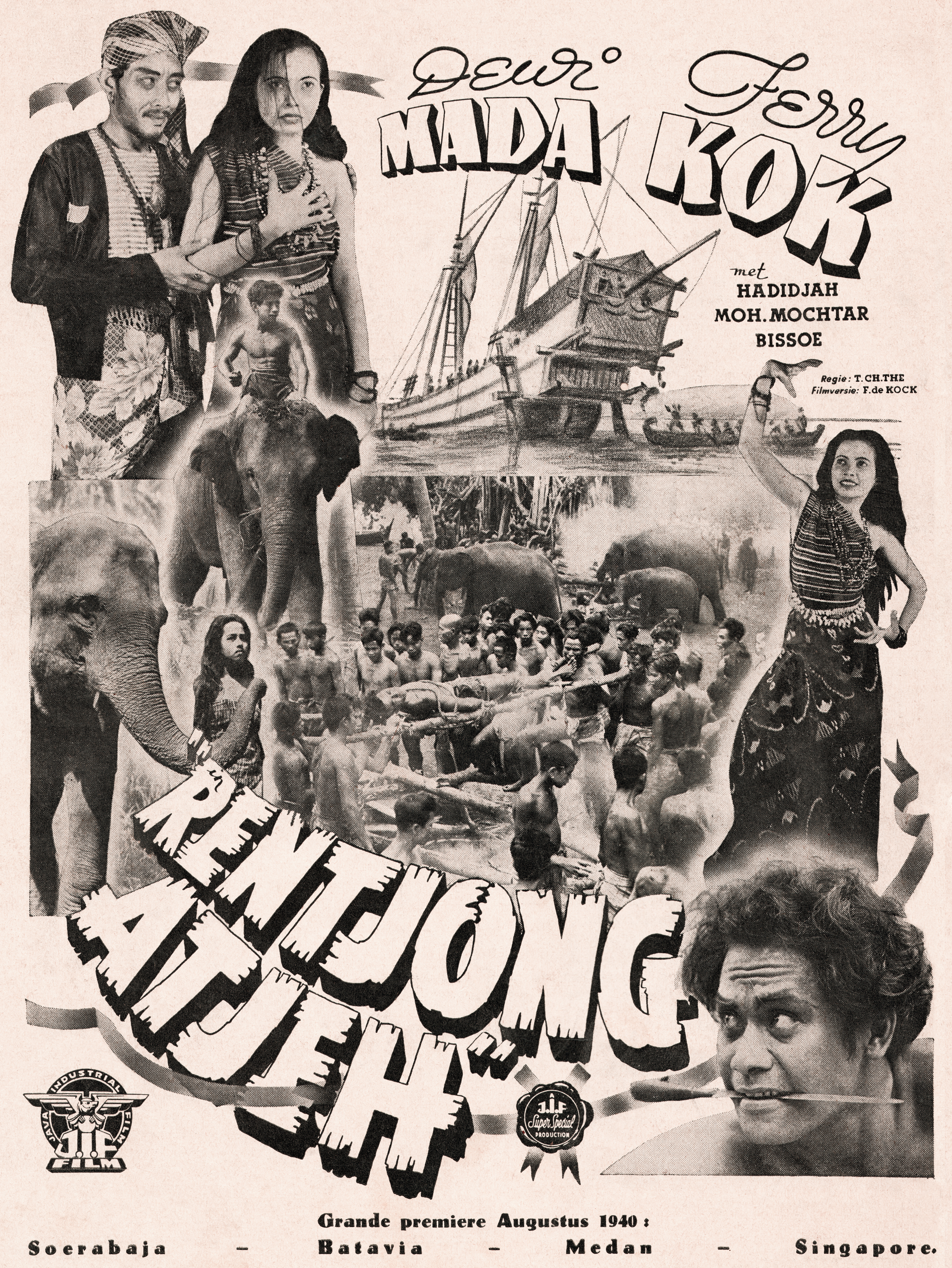 Rentjong Atjeh ad, Star Magazine 2.20 (August 1940), p50